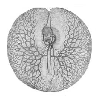 D'Alton's drawing of a chick embryo showing the first circulation.